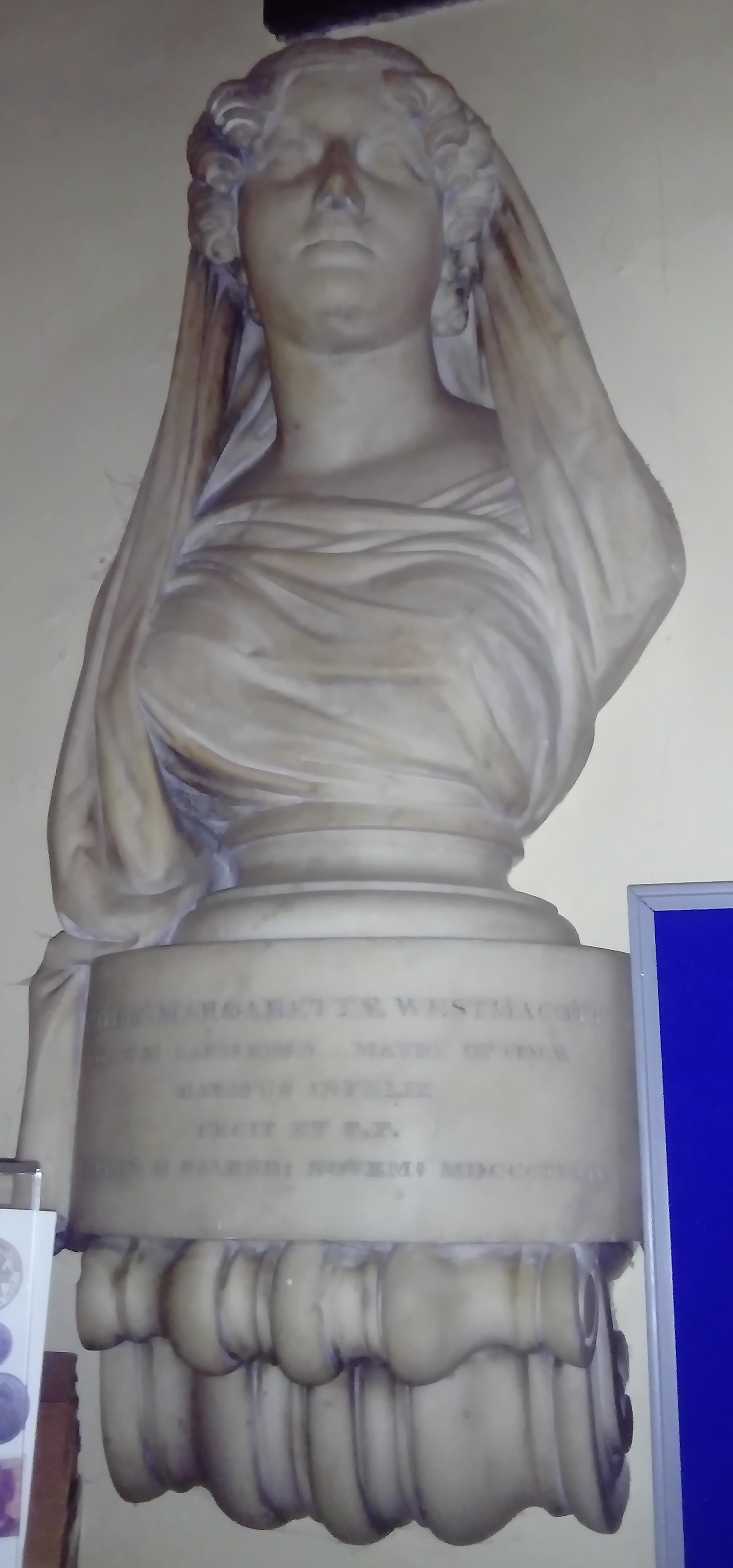 Bust of Dorothy Margaret Westmacott by her husband Richard Westmacott - west aisle of St Nicholas Church, Brighton, East Sussex, UK